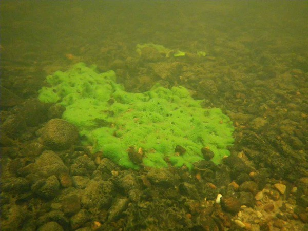 A freshwater sponge Spongilla on the river bottom in the Vitebsk Raion, Belarus.